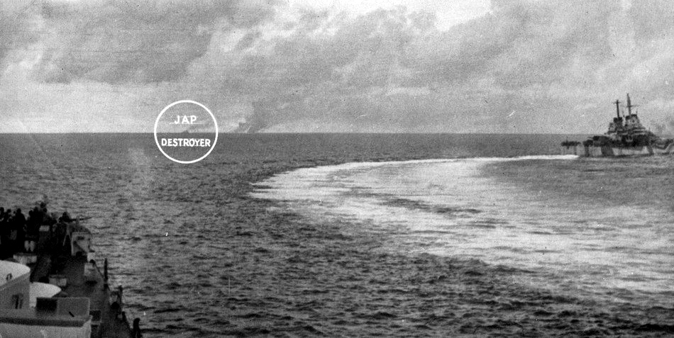 The U.S. cruisers USS Columbia (CL-56) and USS Denver (CL-58) turning before firing on the crippled Japanese destroyer Asagumo after the Battle of Surigao Strait, 25 October 1944.